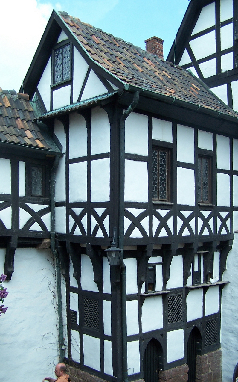 The donkey mans house at Wartburg castle.